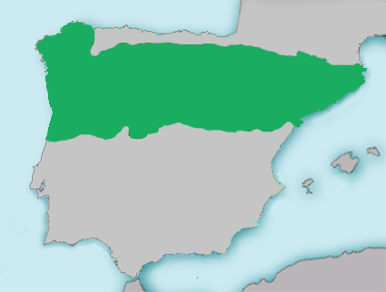 Distribution map of Achondrostoma arcasii in Iberian Peninsula